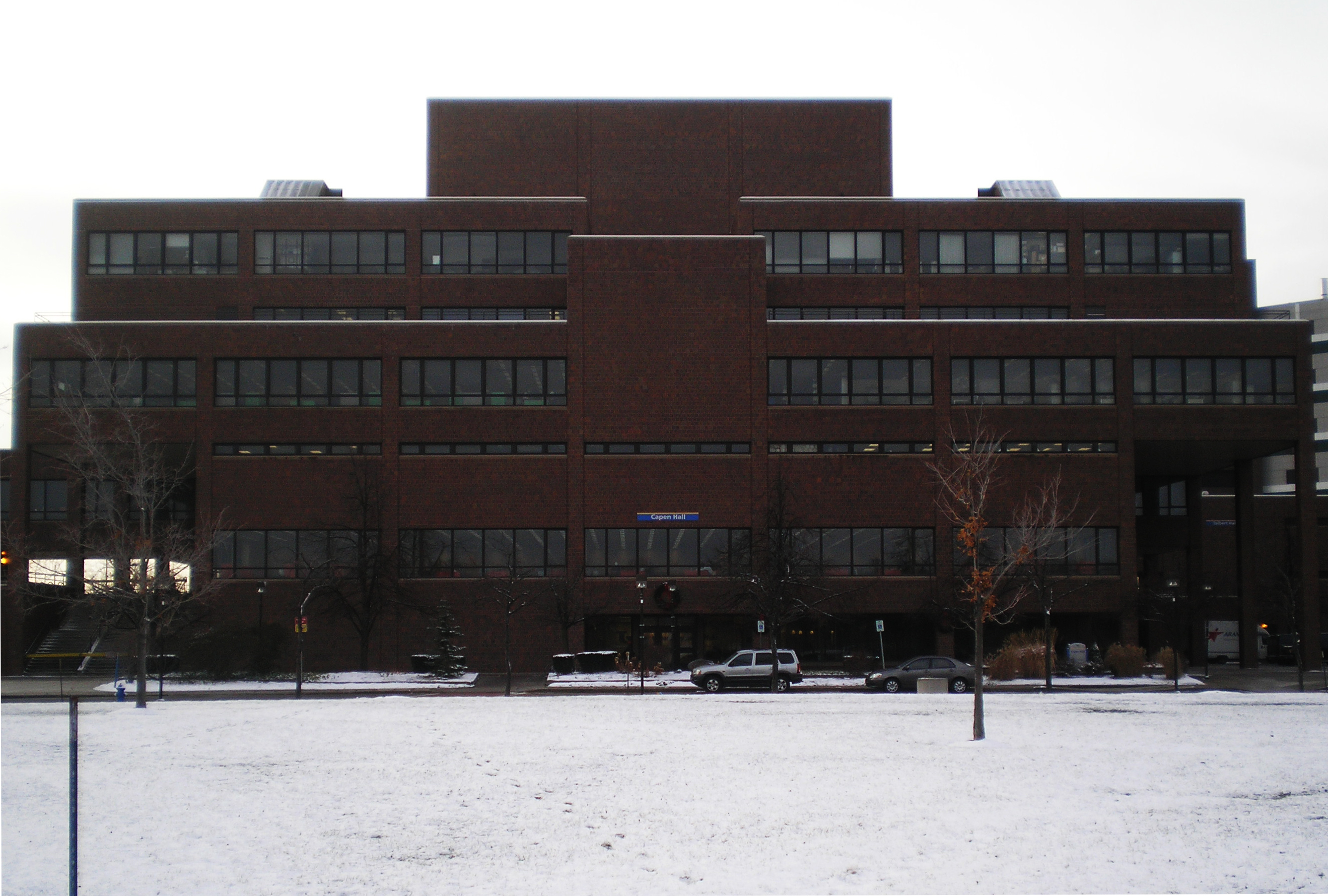 UB North Campus Capen Hall